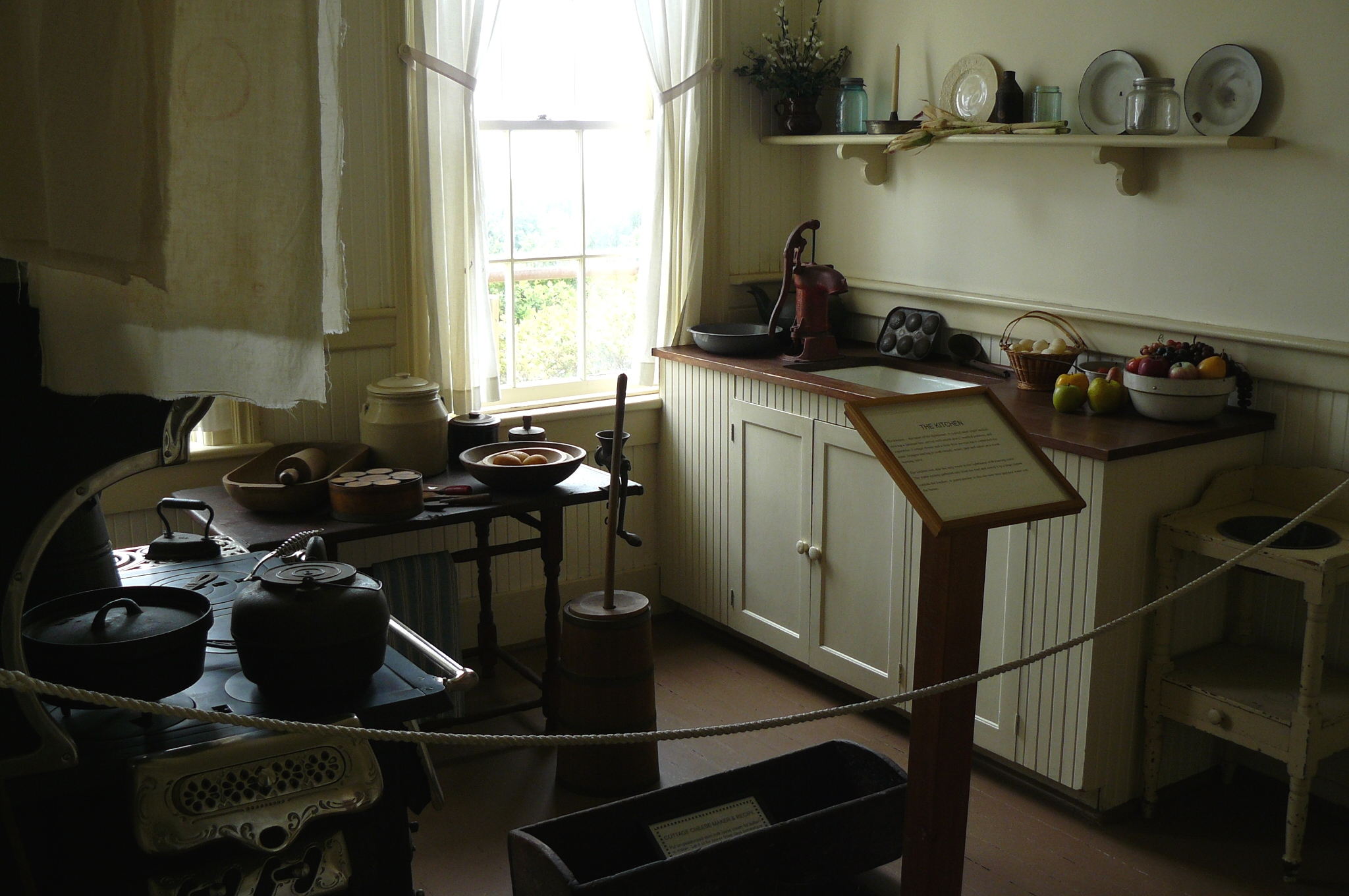 Yaquina Bay Lighthouse, the kitchen